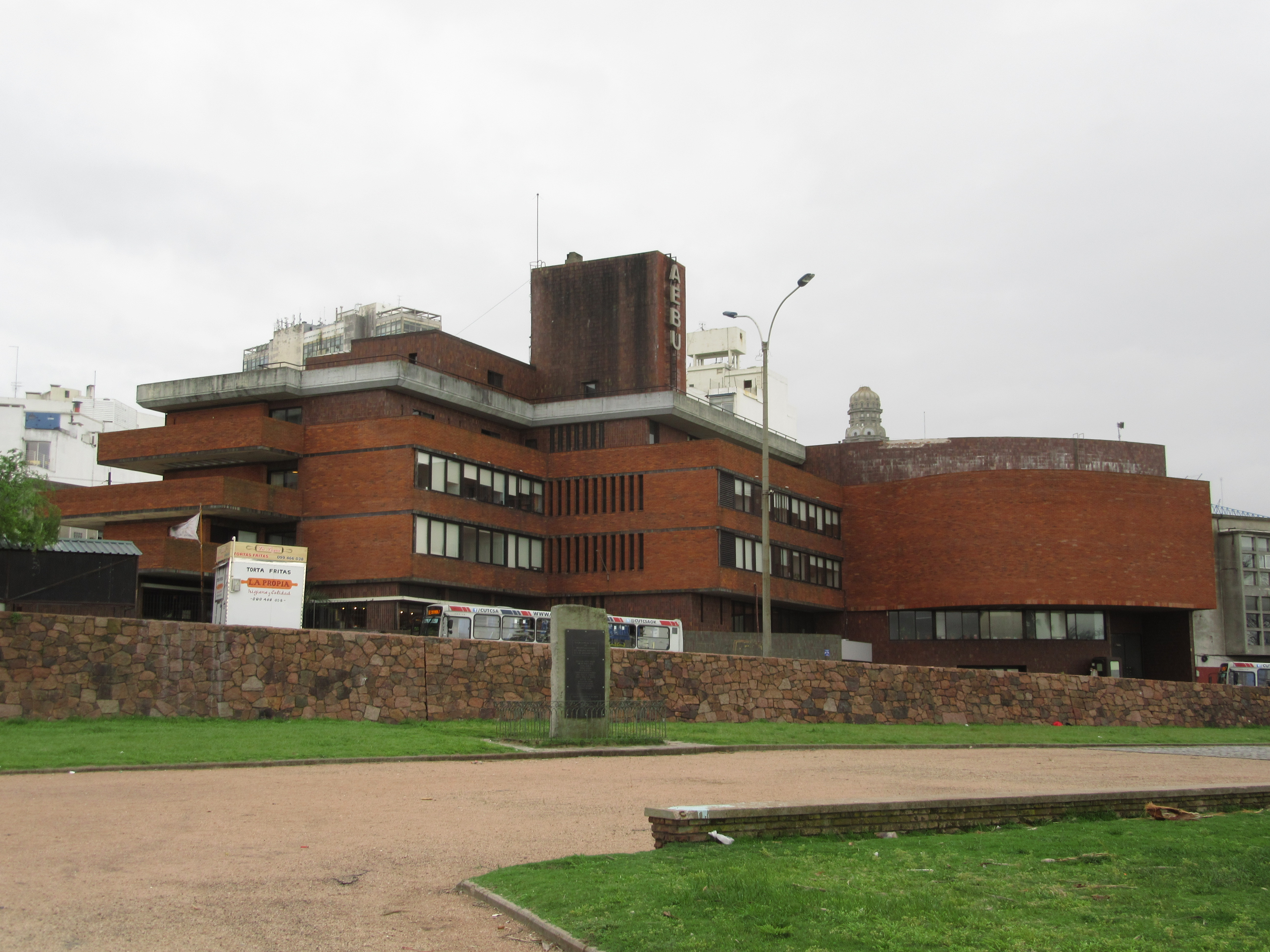 Montevideo